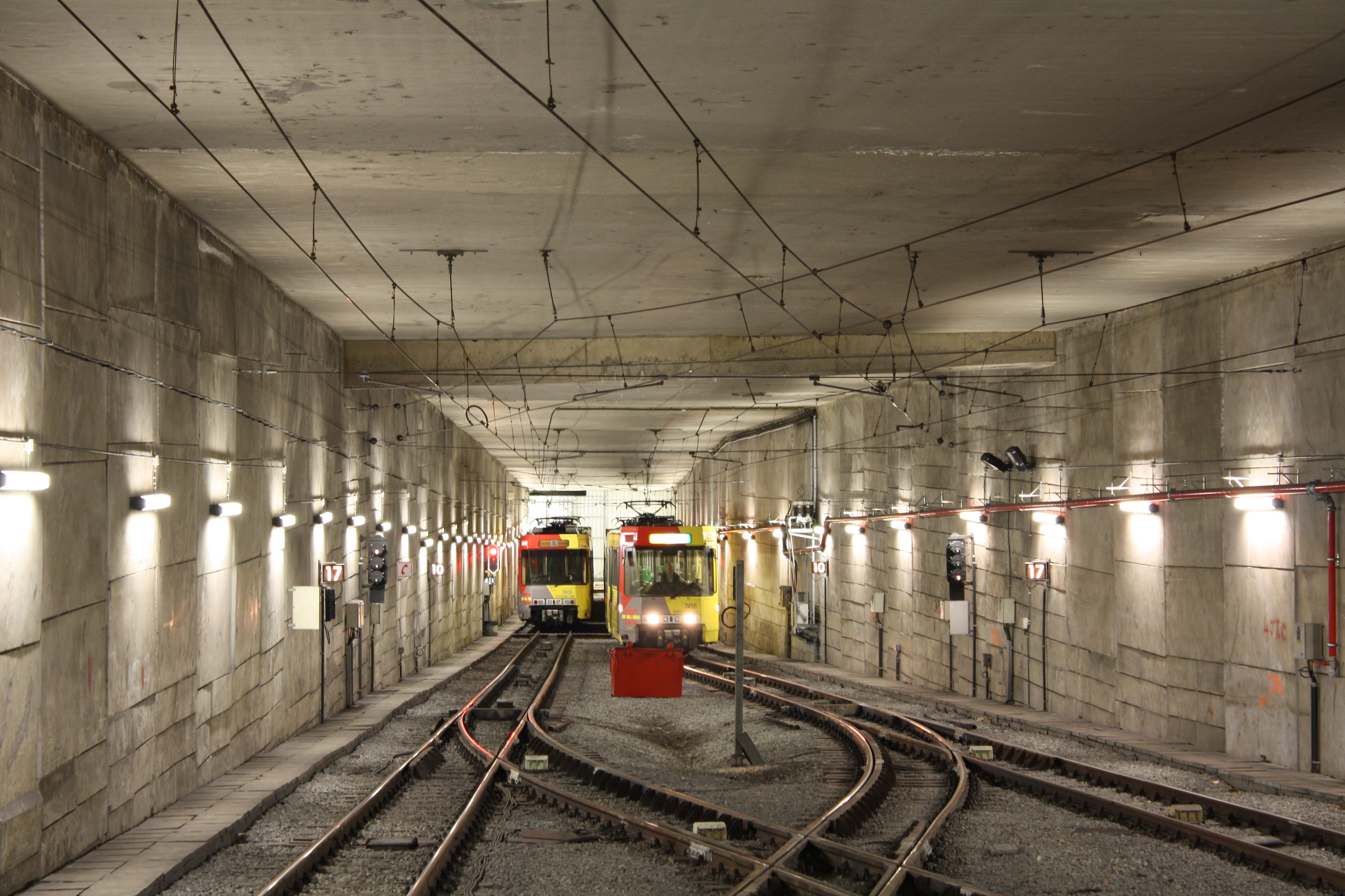 Parc station - tailtrack Shot on 2009-09-19 on a tour of Charleroi's subway, kindly hosted by TEC-Charleroi.